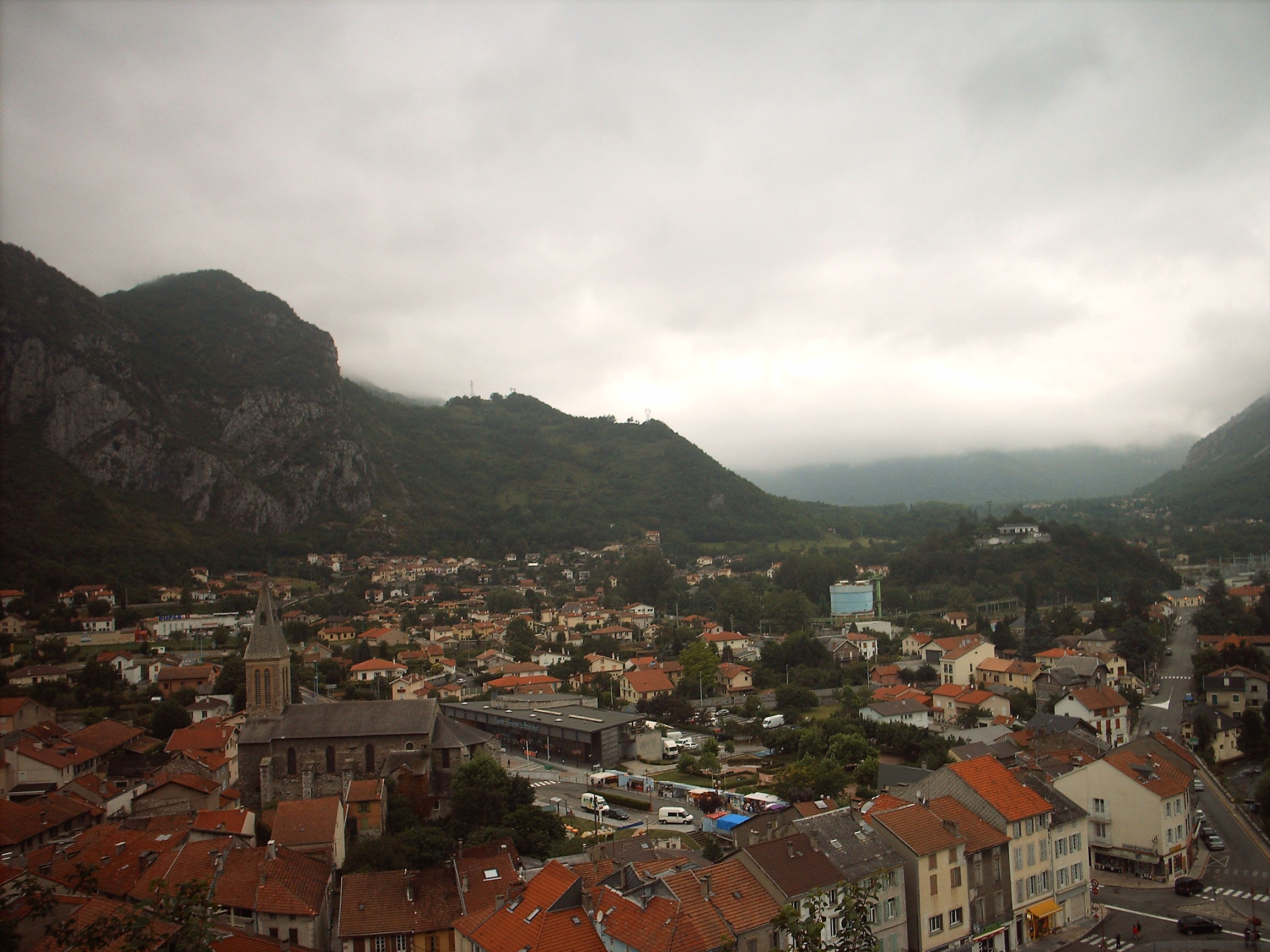 The town of Tarascon-sur-Ariège in the foreground, with the village of Quié in the background.